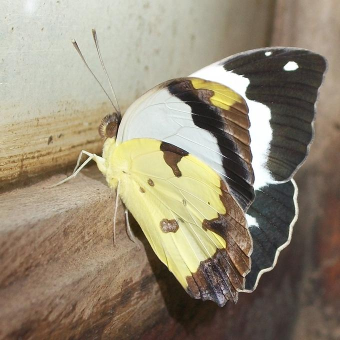 Eronia cleodora raised on on Capparis fascicularis var. zeyheri from Amanzimtoti, South Africa.